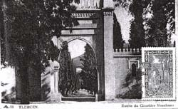 Tlemcen, Algeria - The cemetery on the road to Sidi-based Boumédienne